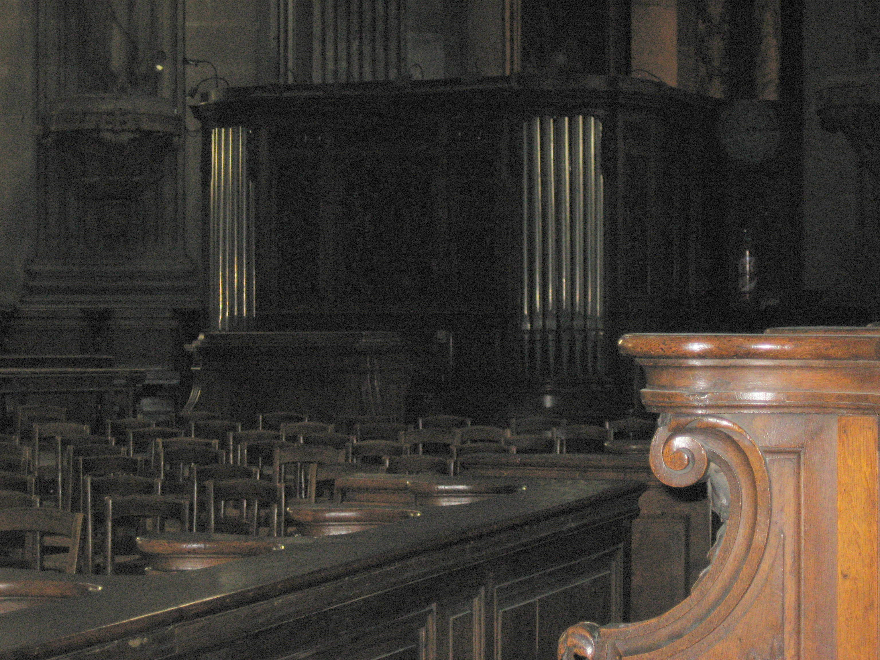 Choir organ of Saint-Sulpice Paris